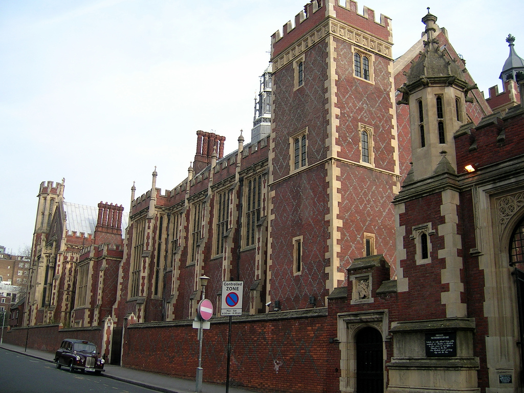 Lincoln's Inn and Cab Lincoln's Inn